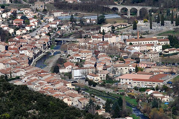 Template:Ge